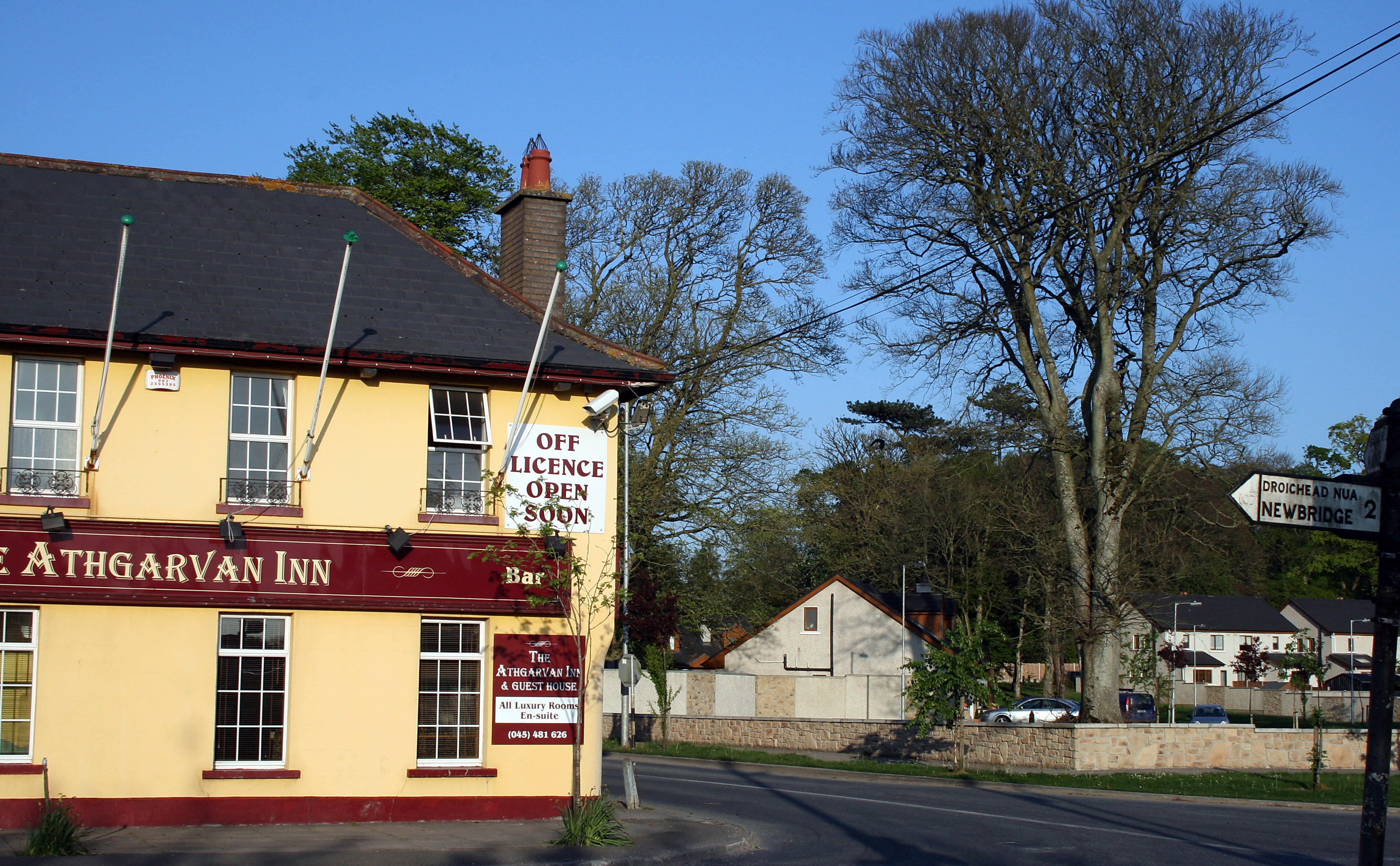 Athgarvan, County Kildare, near to Rosetown, Athgarvan and Connellmore, Kildare, Ireland. Two miles from Newbridge in the old money.